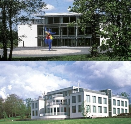 Office of Compagnie Nationale à Portefeuille